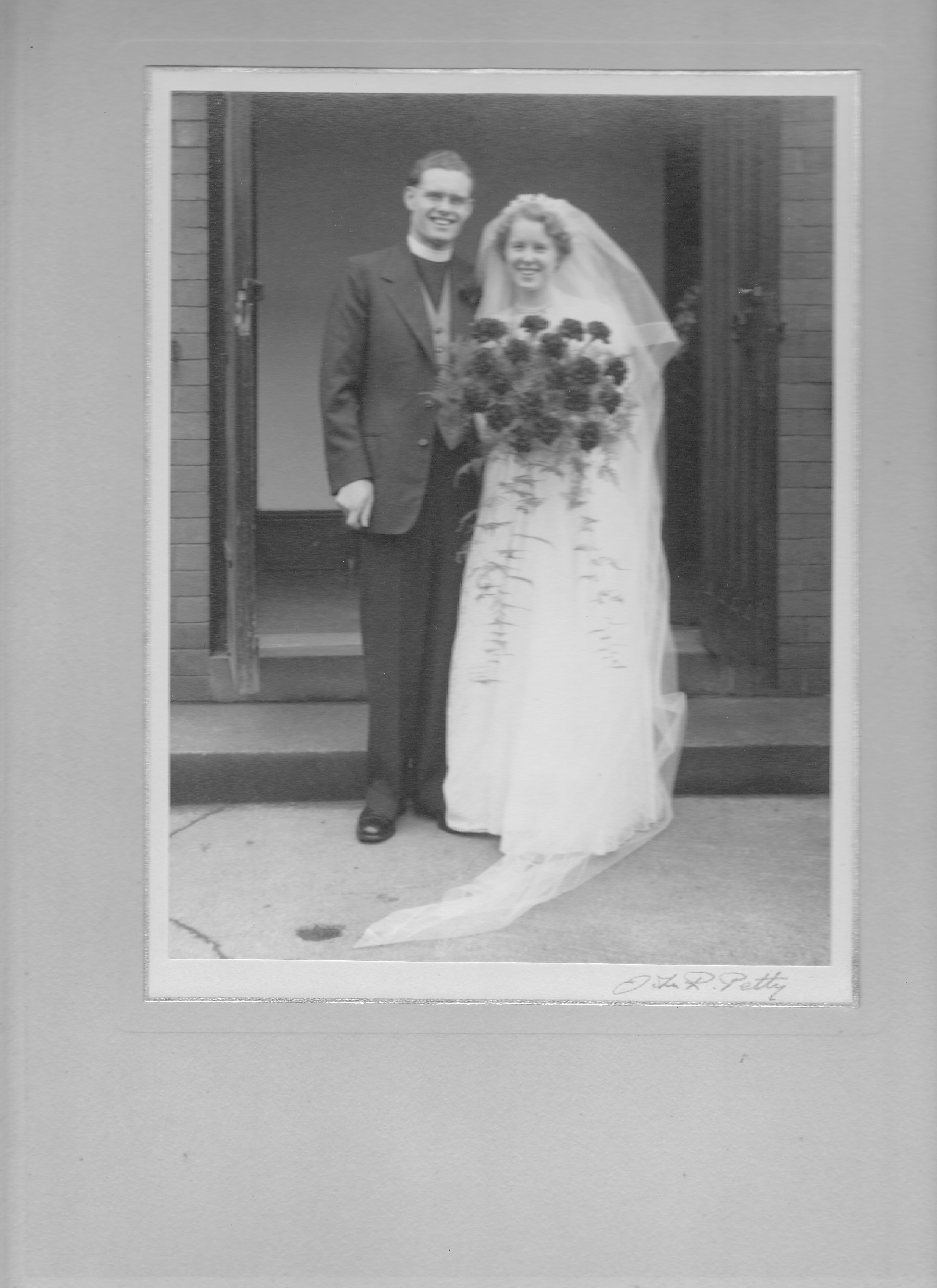 D. Hathaway